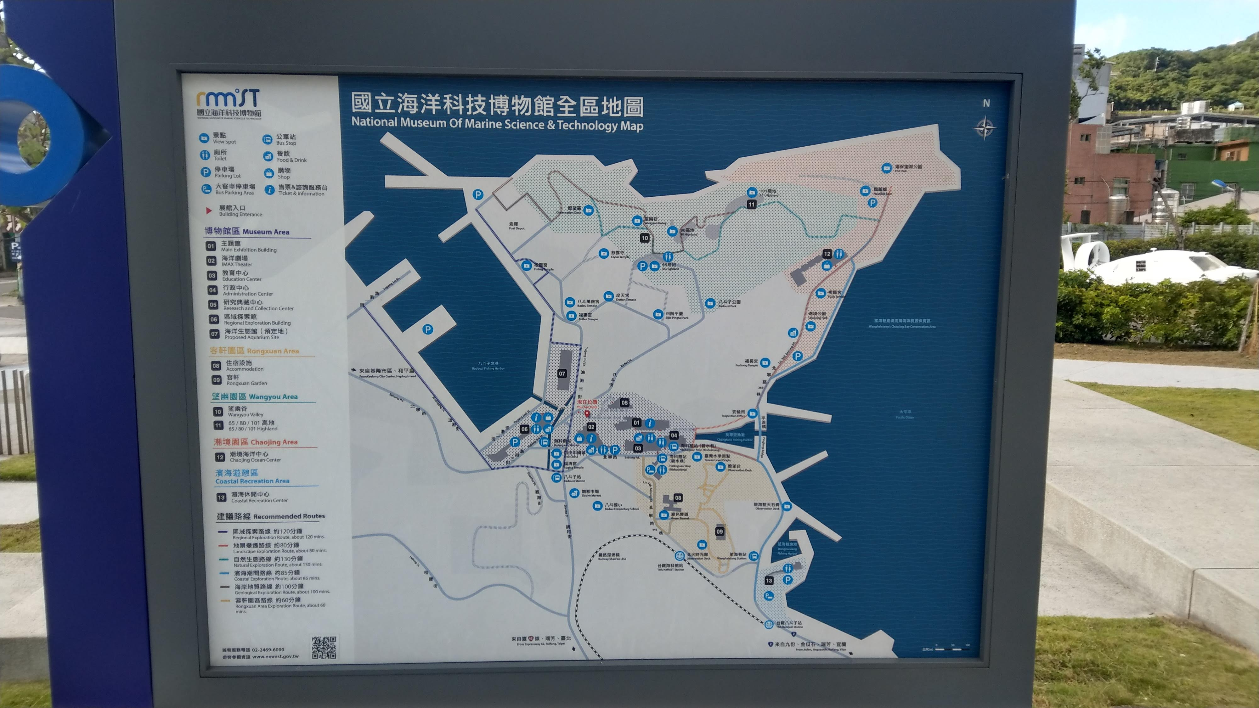 Map board of National Museum of Marine Science and Technology. 中文（台灣）: 國立海洋科技博物館全區地圖告示牌。